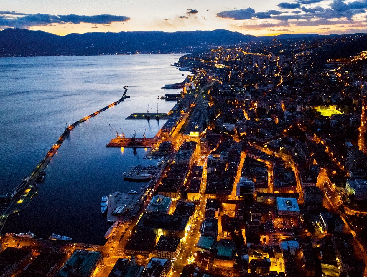 Rijeka, Croatia